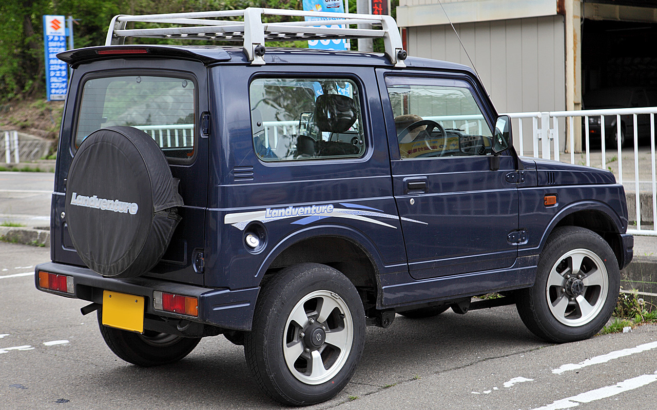 Suzuki Jimny 660 Turbo Hardtop Landventure ( JA22W )